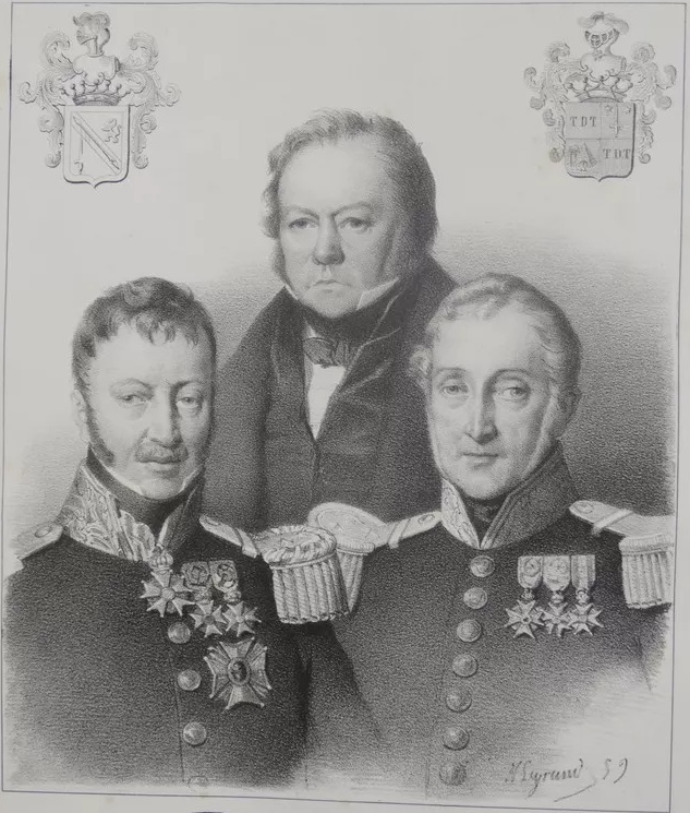 Frères Duvivier (Auguste, Louis et Vincent)